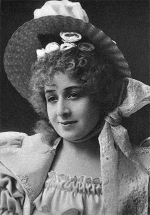 Hilda Castegren (1880-1943) as Denise de Flavigny in the operetta Mam'zelle Nitouche